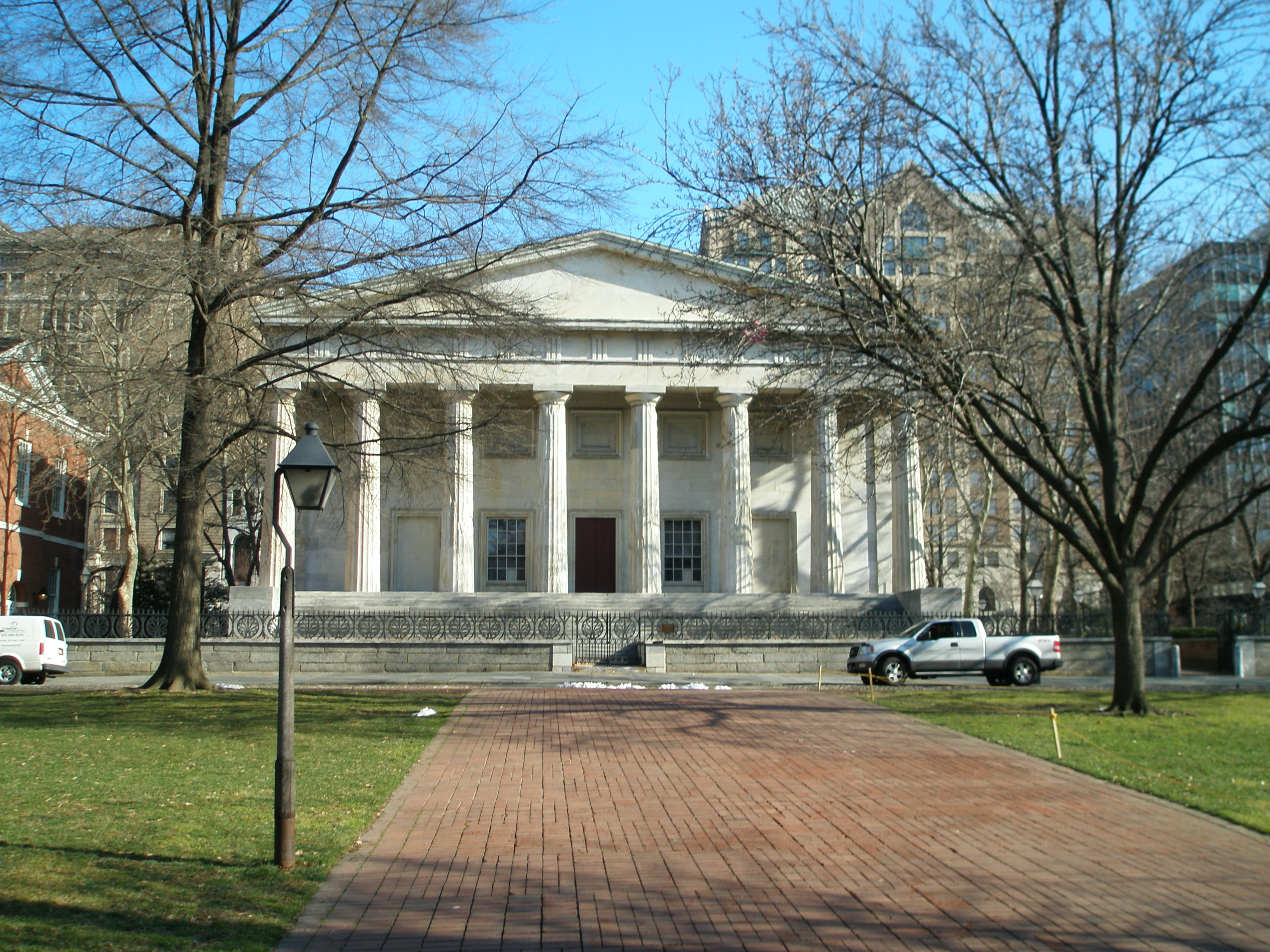 Second National Bank of the United States, designed by William Strickland, Philadelphia, Pennsylvania